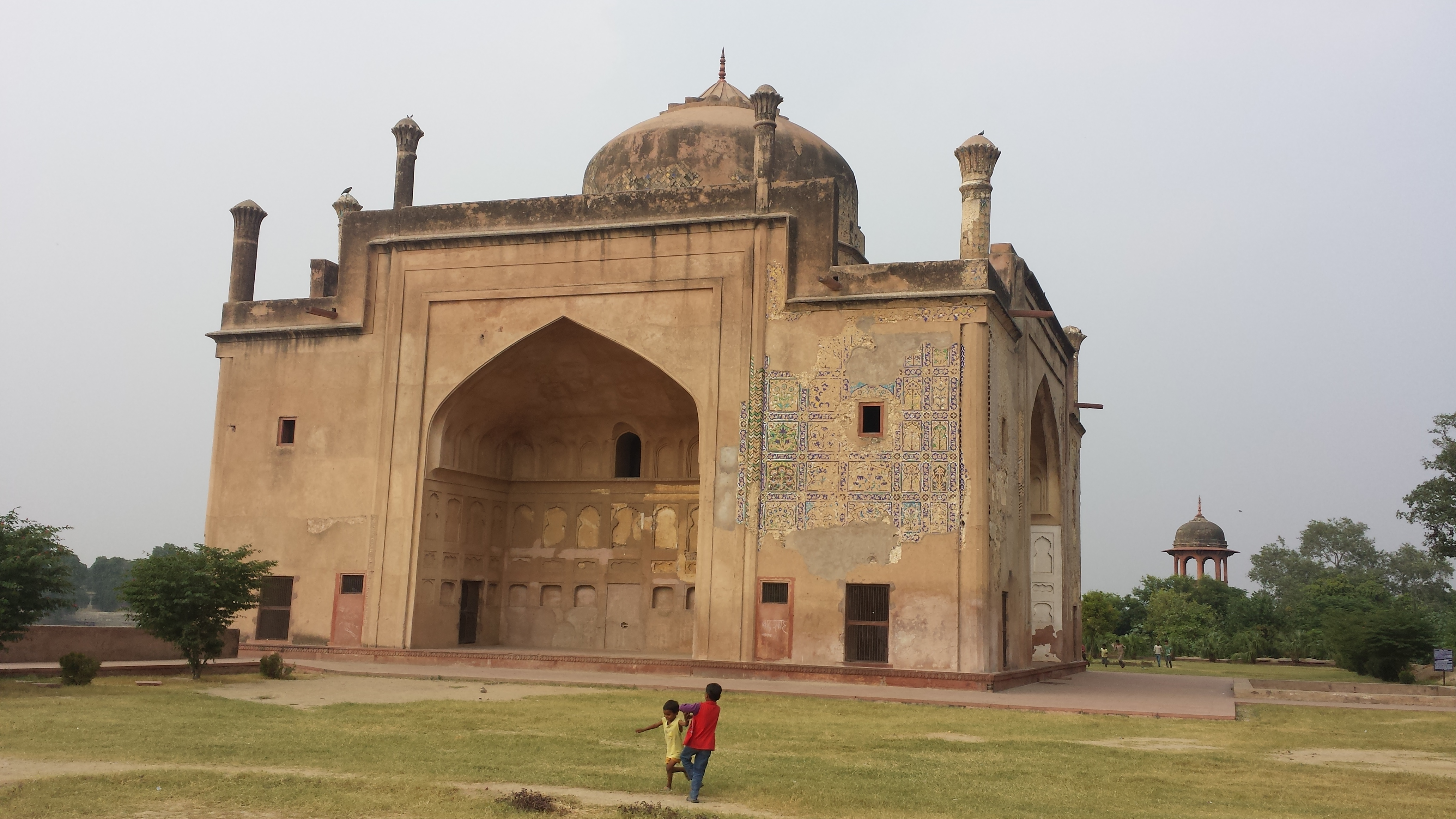 Chini Ka Rauza is the tomb of Allama Afzal Khan Mullah, who was the prime minister of Mughal Emperor Shah Jahan. Agra, India, October 2014.